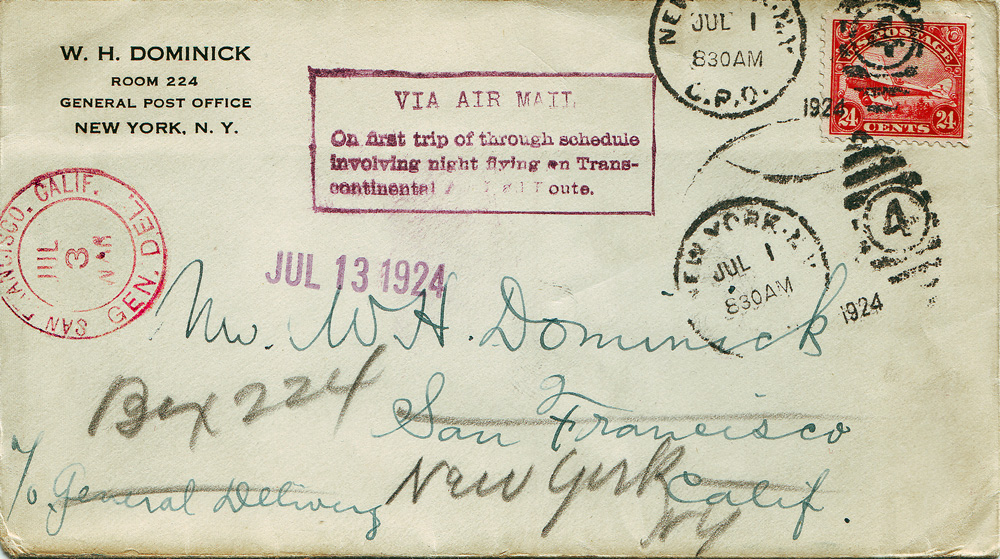 First Flight cover carried on the first Westbound trip of the U.S. Transcontinental Air Mail involving night flying, July 1, 1924 Source: The Cooper Collection of U.S. Aero Postal History (Private collection) (Photograph by the uploader, Centpacrr)